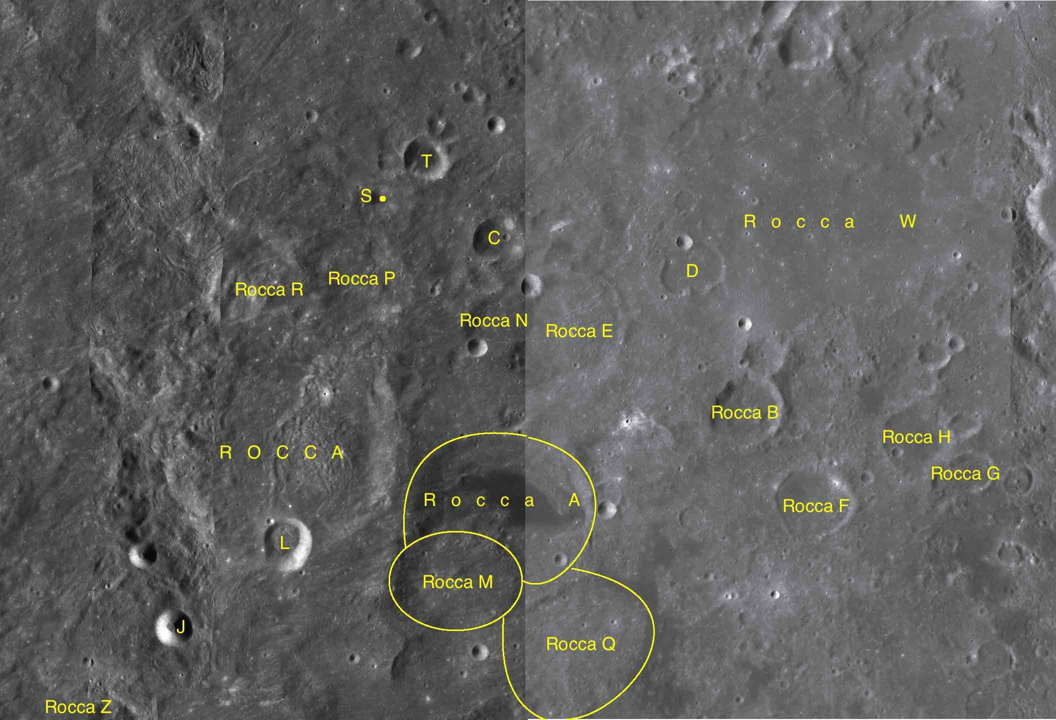 Parts of the charts LAC-73, LAC-74 used for the presentation